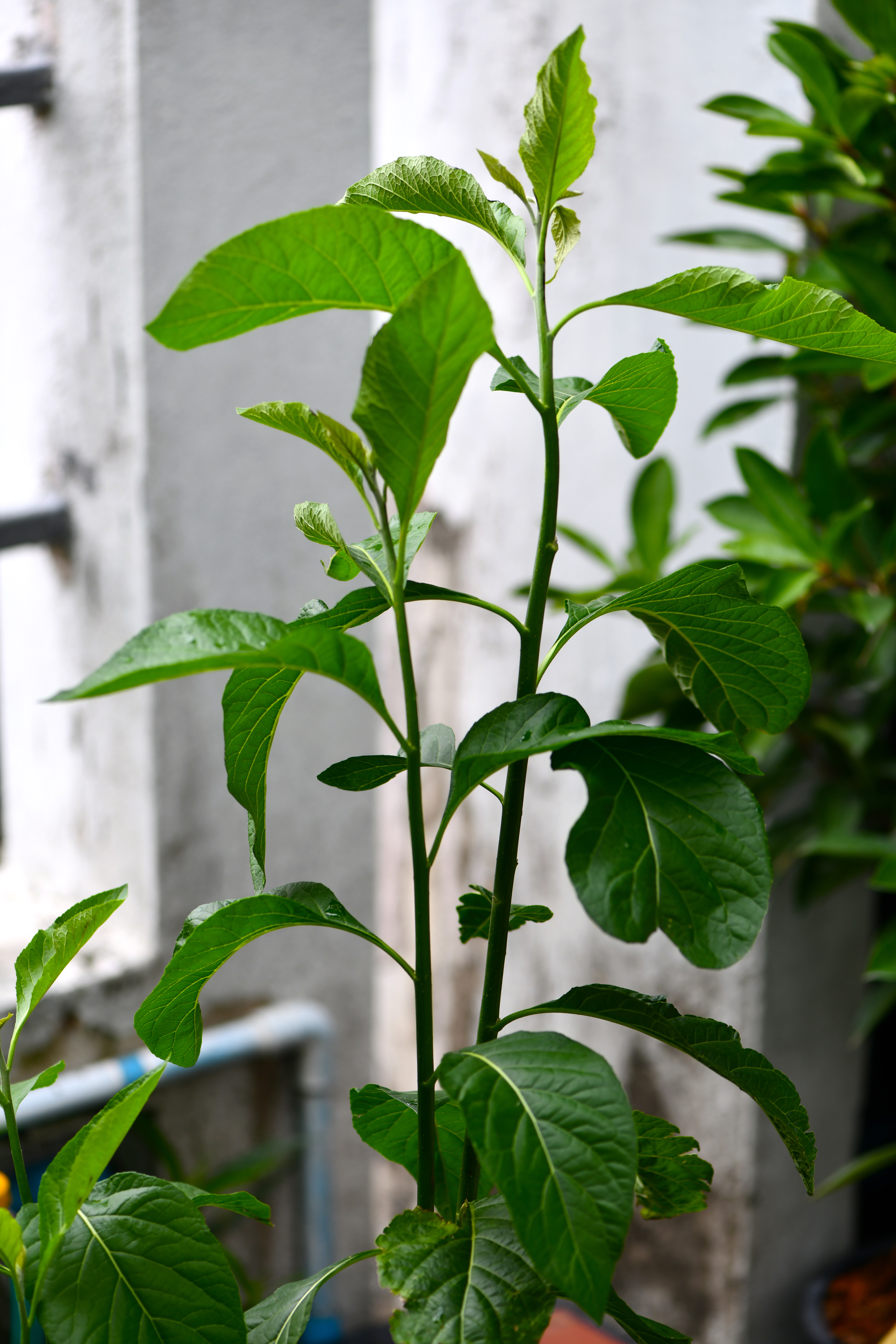 Bitterleaf หนานเฉาเหว่ย From Thailand. Herbal for Life.